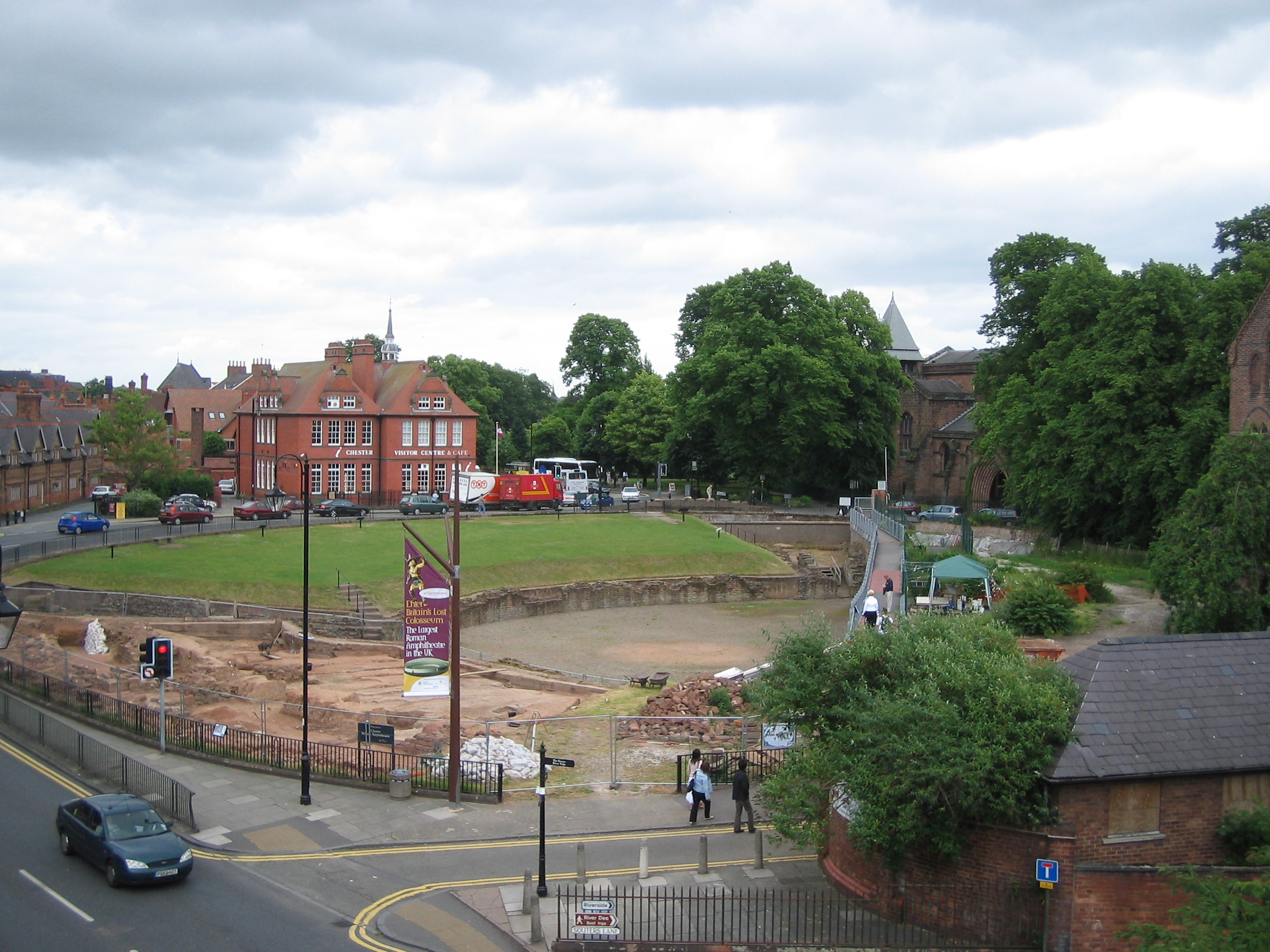 Chester amphitheatre as seen from the Newgate.